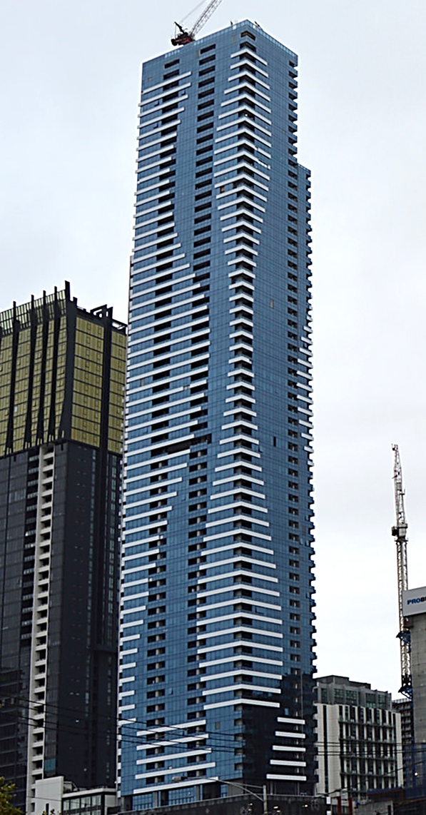 Vision Apartments, a skyscraper in Melbourne on 20 June 2016. Image has been rotated and cropped.